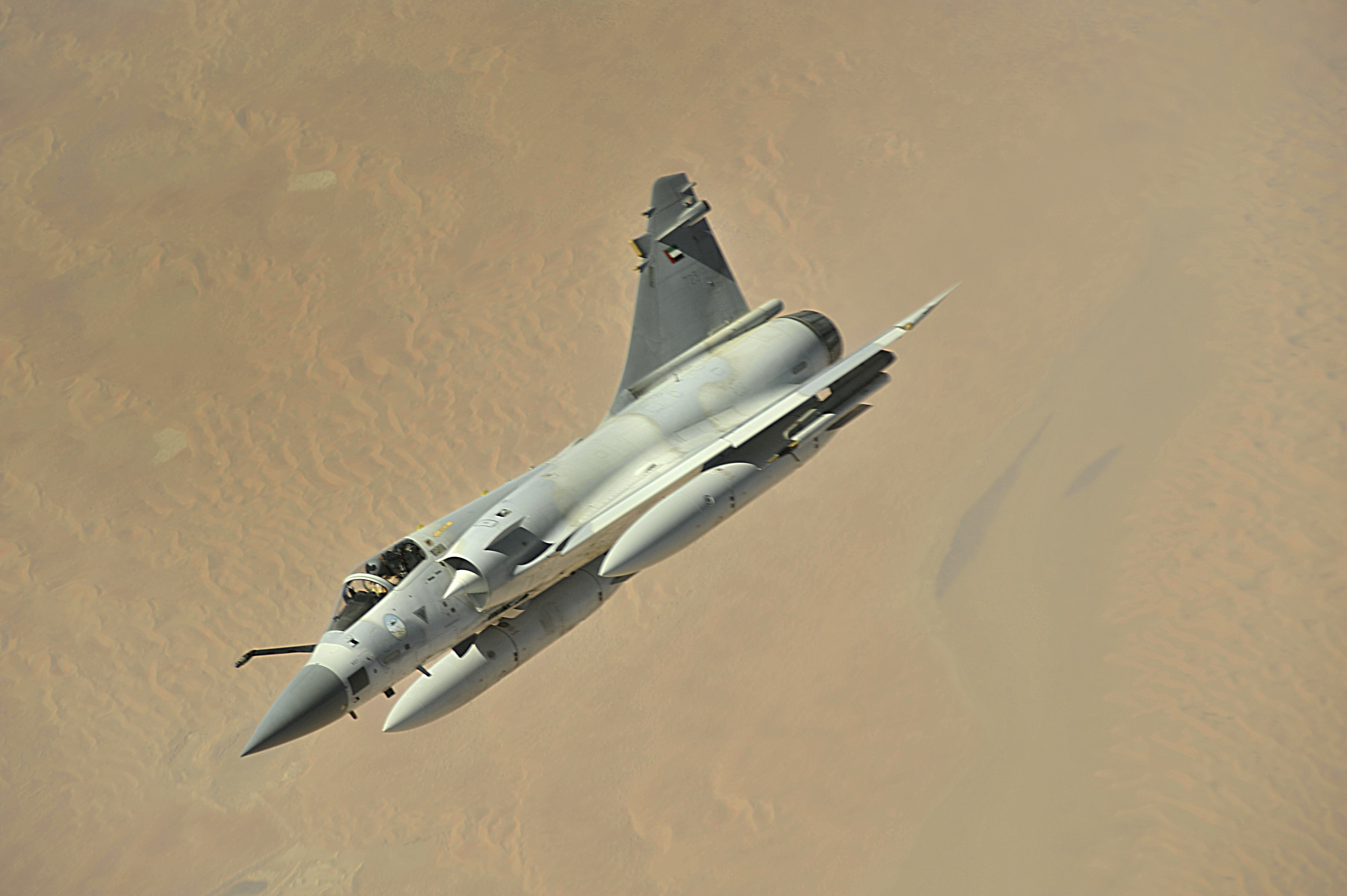 A Mirage 2000 fighter from the United Arab Emirates flies over Southwest Asia Nov. 10, 2008.